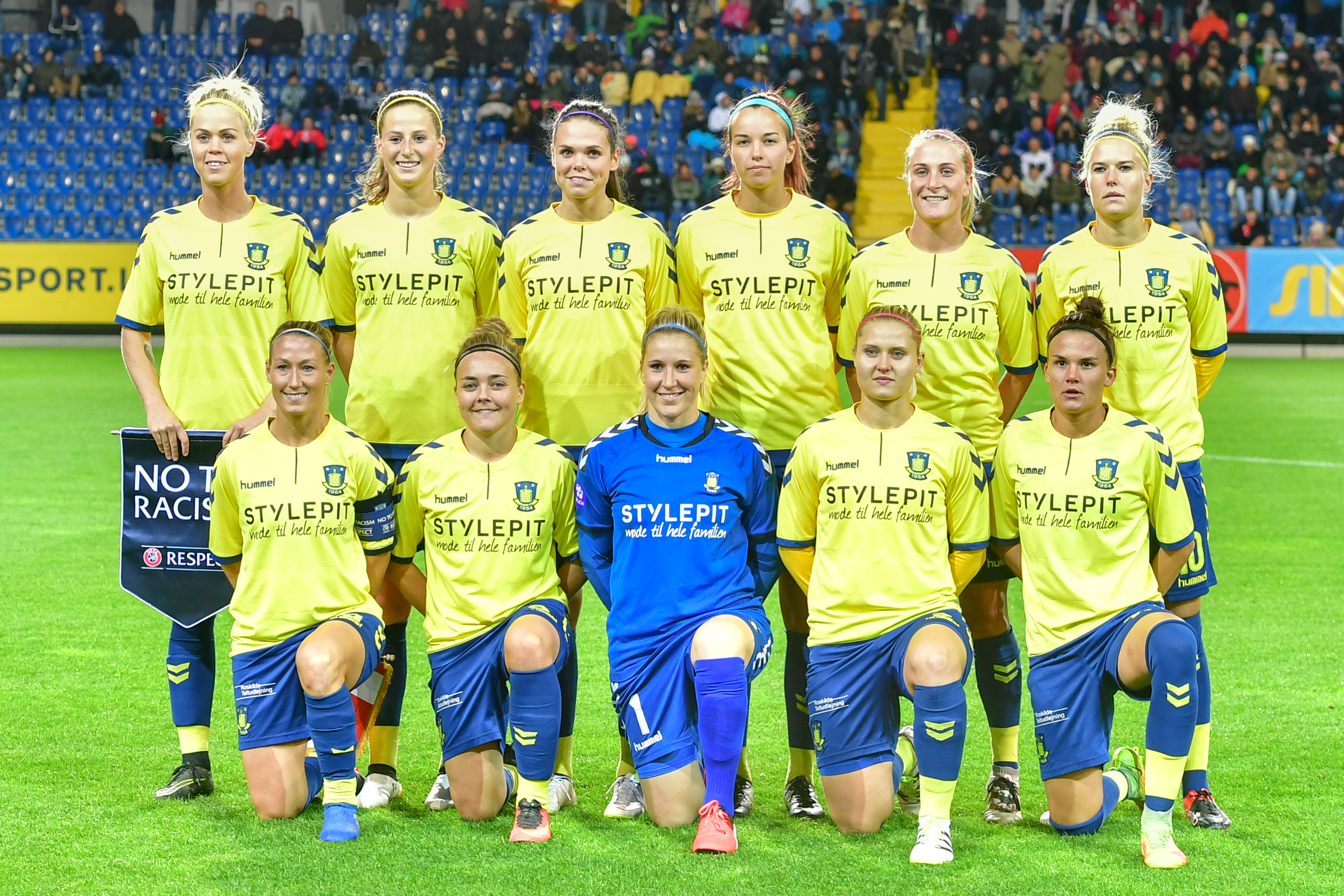 2016/10/05 UEFA Women's Champions League - SKN St. Poelten vs Broendby IF.